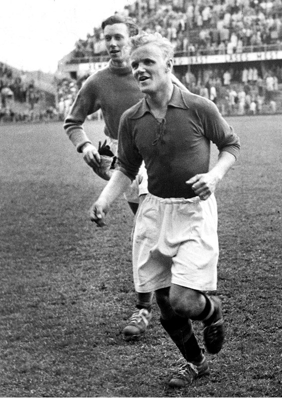 Lennart "Nacka" Skoglund for the so called Press team versus the Swedish national team, Råsunda Sweden, 1950-05-29.